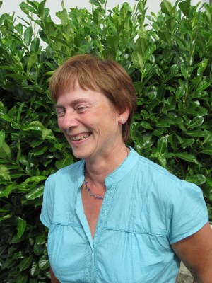 Tine Van Rompuy